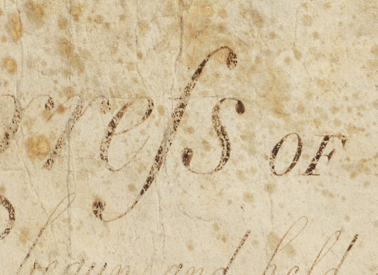 Part of the first line the US Bill of Rights showing a long s: “[Con]greſs of” (“[Con]gress of”).